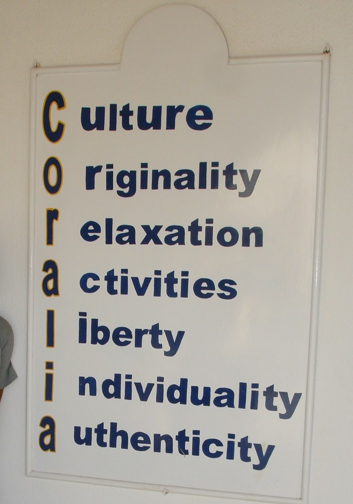 Sign at Coralia beach club in Dahab - Egypt